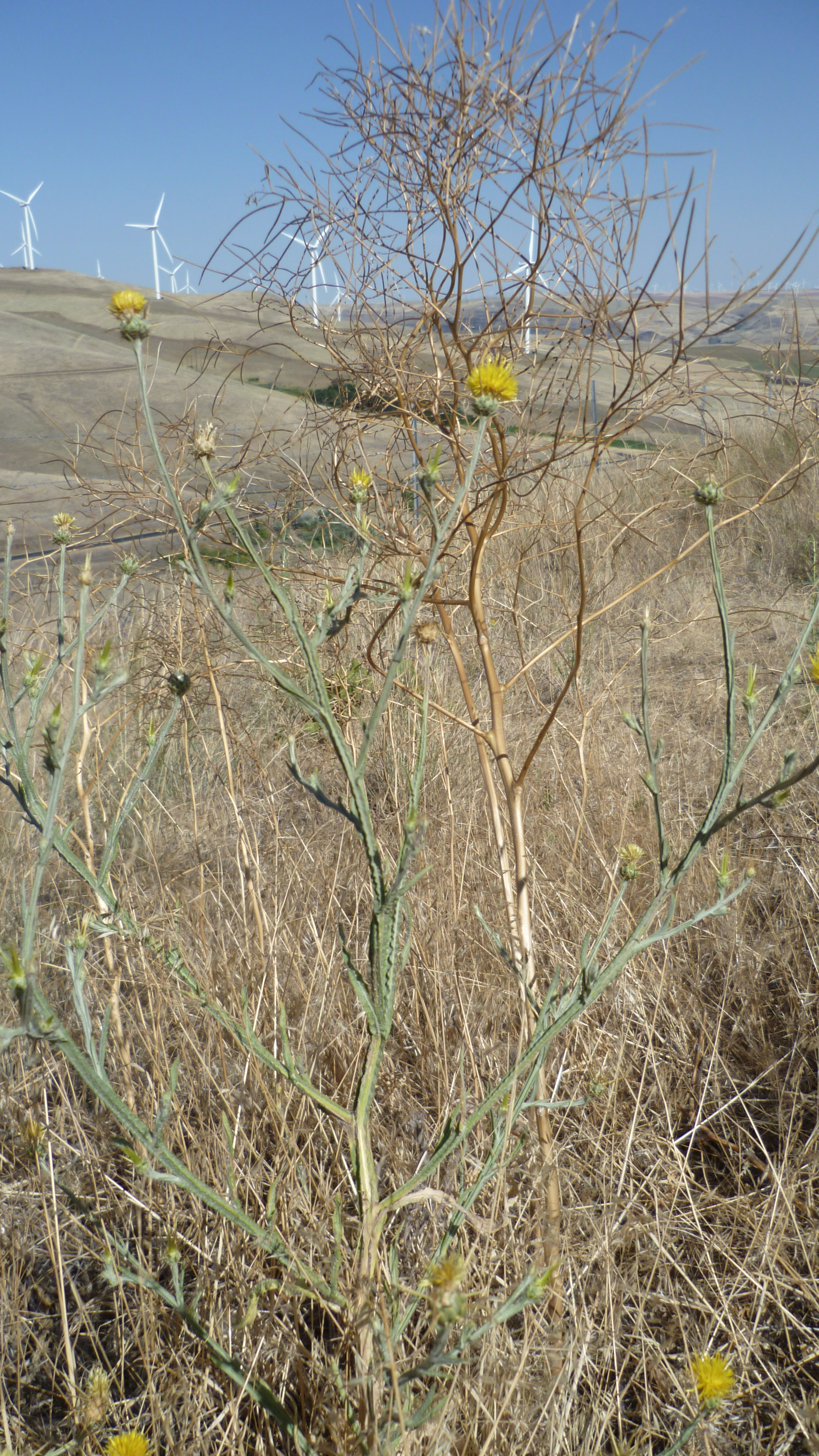 Centaurea solstitialis on HWY 97 south of Goldendale, Klickitat County Washington